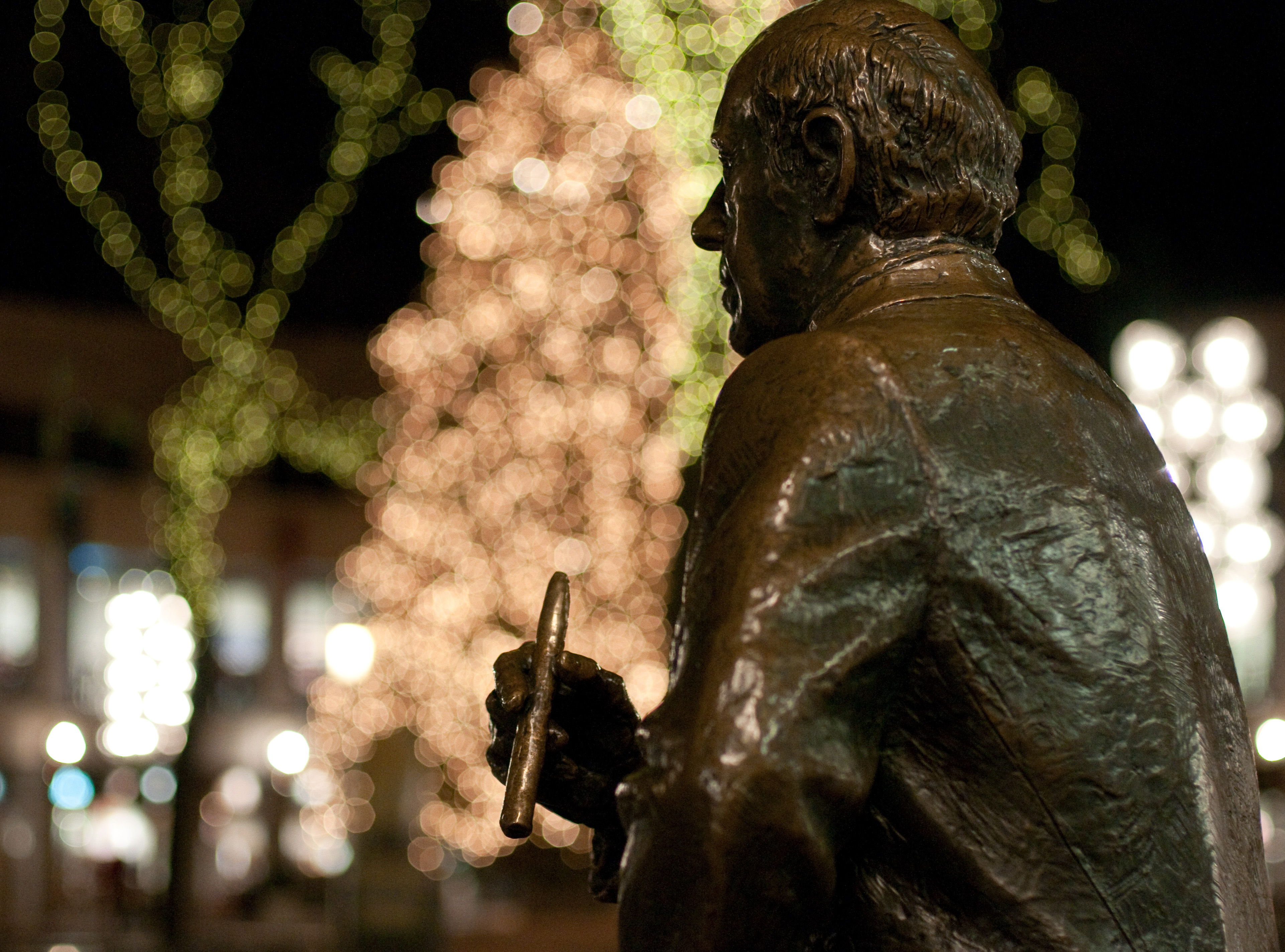 Red Auerbach statue and Boston's 2010 christmas tree